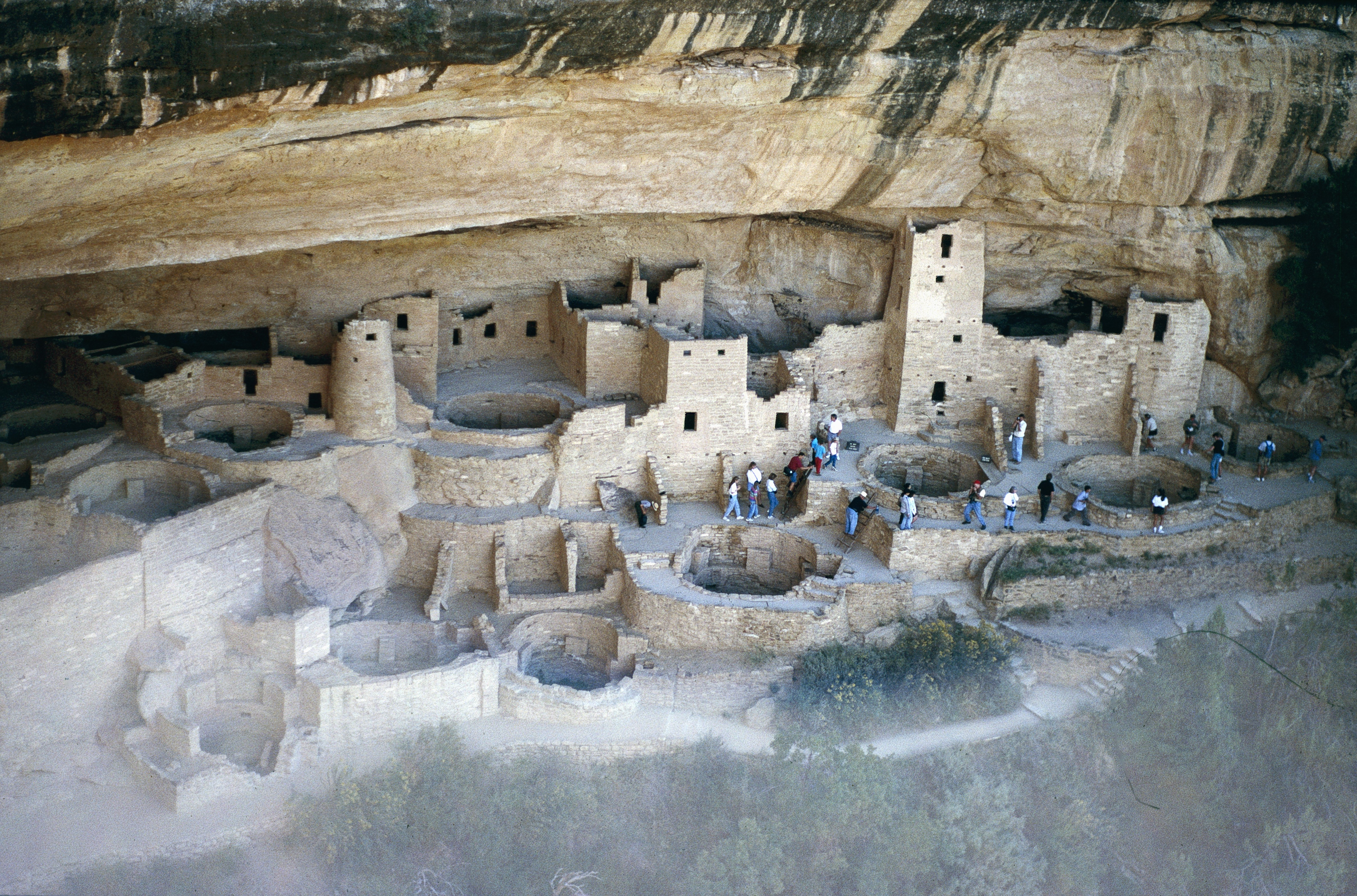 Mesa Verde, New Mexico, Cliff Palace